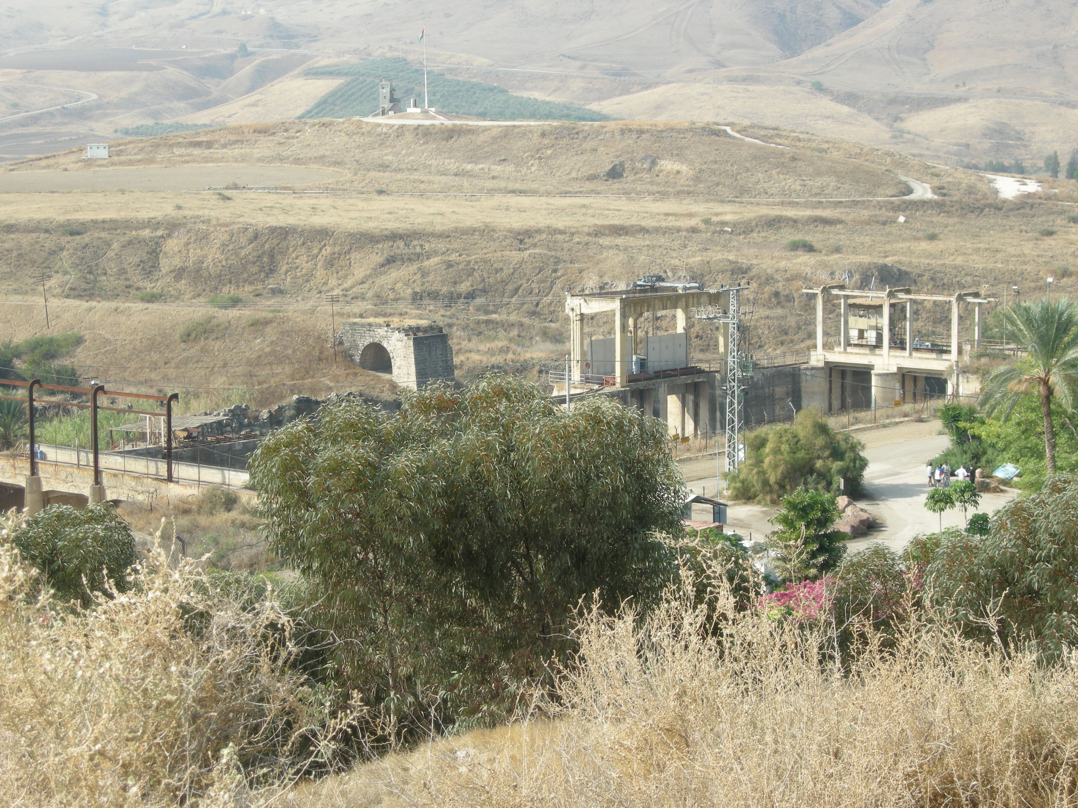 Naharayim memorial